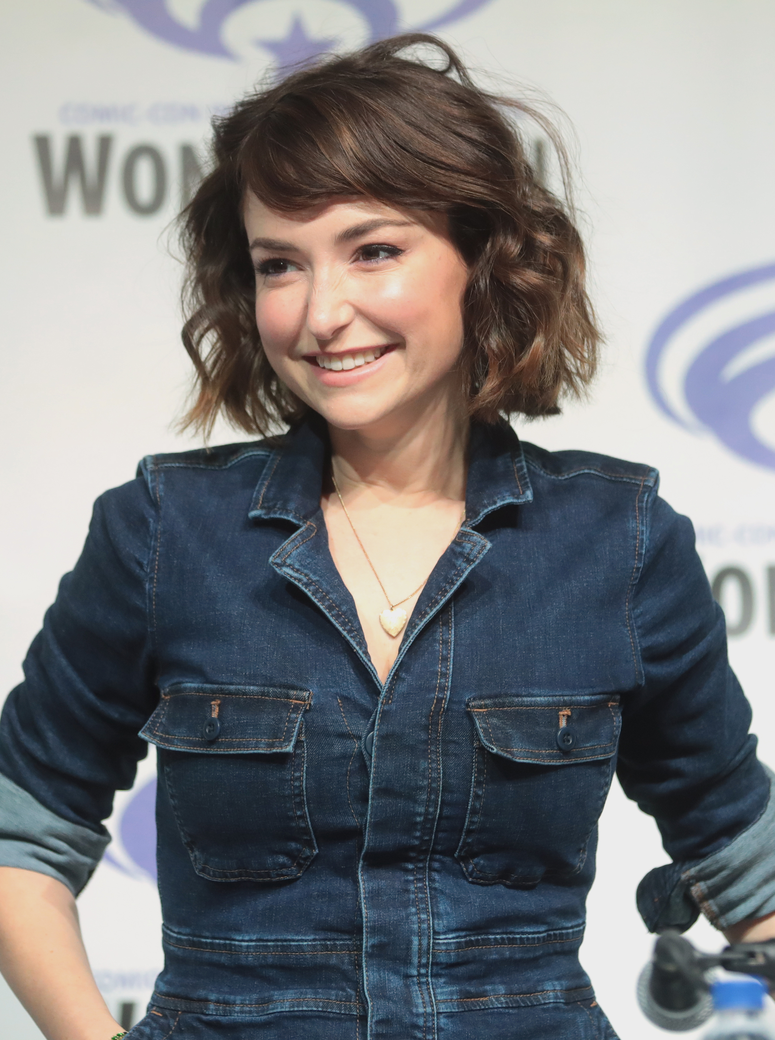 Milana Vayntrub at the 2019 WonderCon in Anaheim, California.